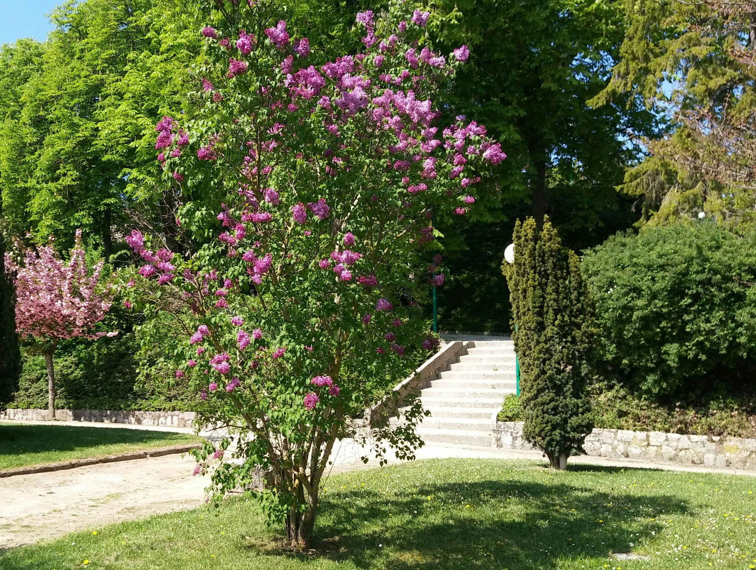 Villa Comunale public park in Ariano Irpino, Italy